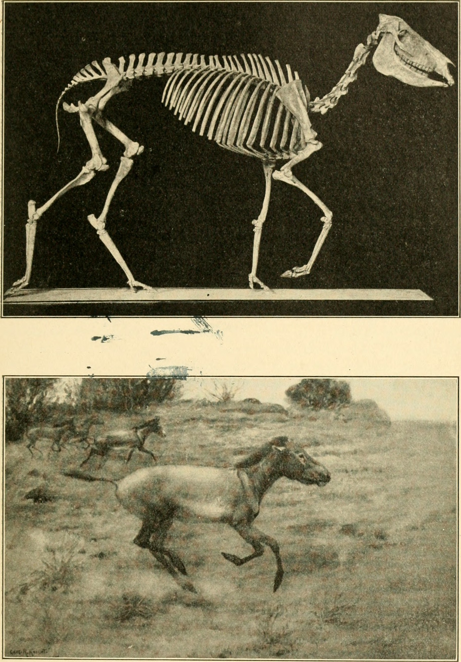 Title: The age of mammals in Europe, Asia and North America Year: 1910 (1910s) Authors: Osborn, Henry Fairfield, 1857-1935 Subjects: Mammals, Fossil; Paleontology Publisher: New York, The Macmillan Company Text Appearing Before Image: THE MIOCENE OF EUROPE, ASIA, AND NORTH AMERICA 243 Text Appearing After Image: Fig. 123. — Type of the Upper Miocene ' Hipparion Fauna' of the New and Old Worlds. Neohipparion, the liKht-limbcd dpscrt-livinp; horse of the Upper Miocene of North America. Above : Skeleton of Neohipparion whitncip'. lielow : Restoration of the same by Charles R. Knight. B;i(th in the American Museum of Natural History. \